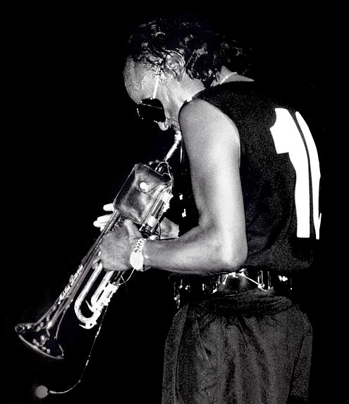 Miles Davis, Den Haag, 1986 (cropped version)